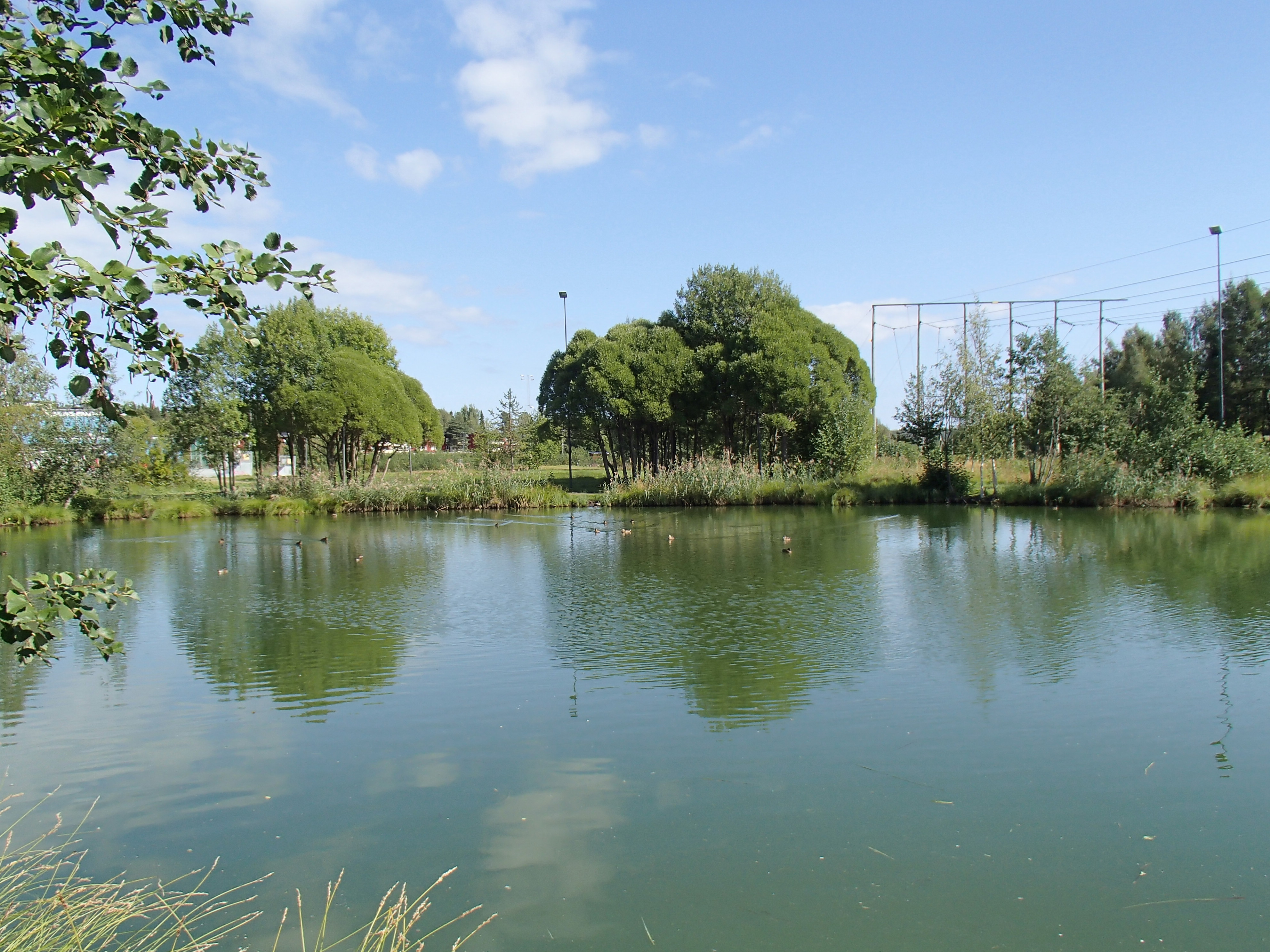 Pussen på Porsön